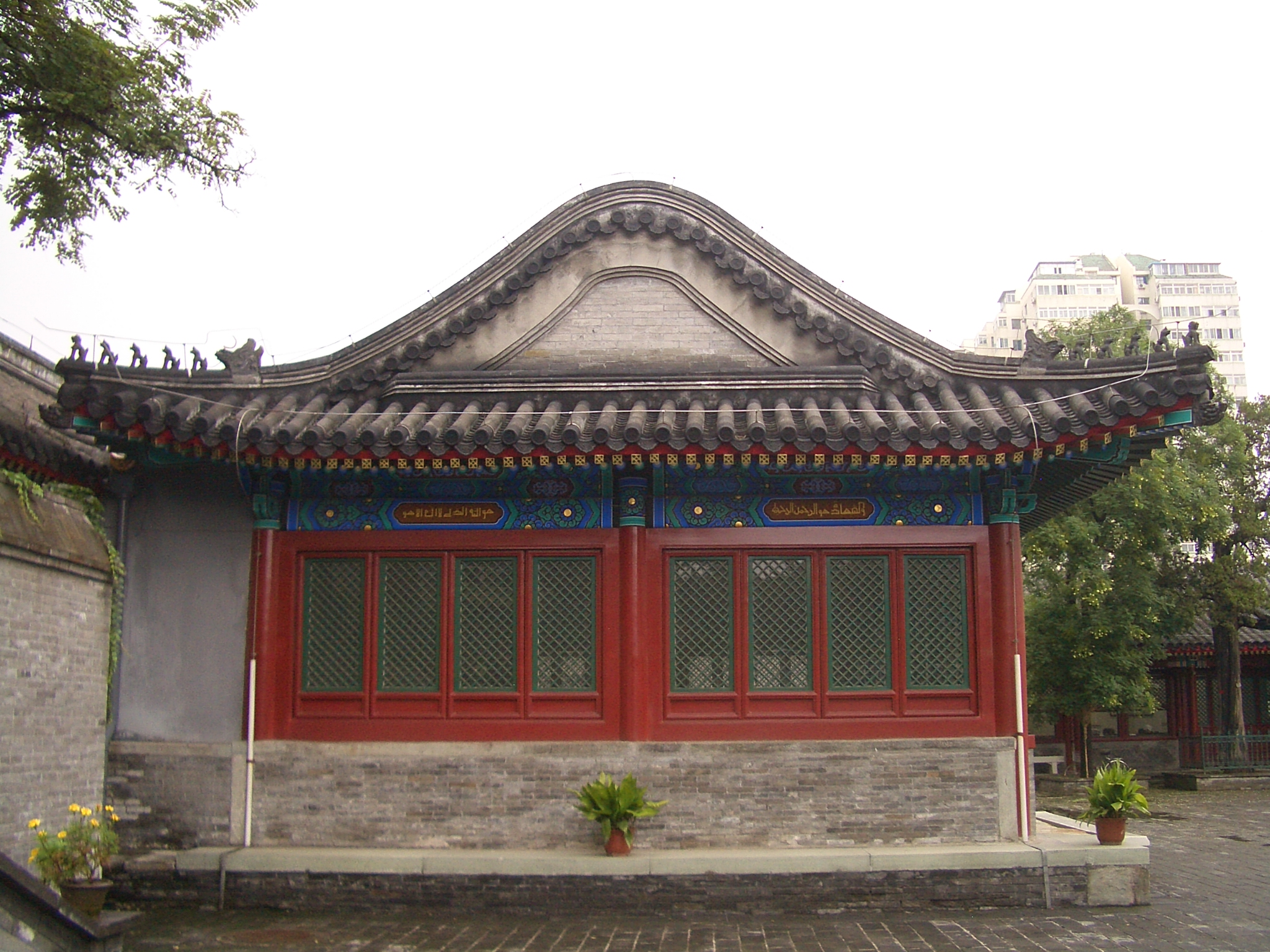 Niujie Mosque, Beijing